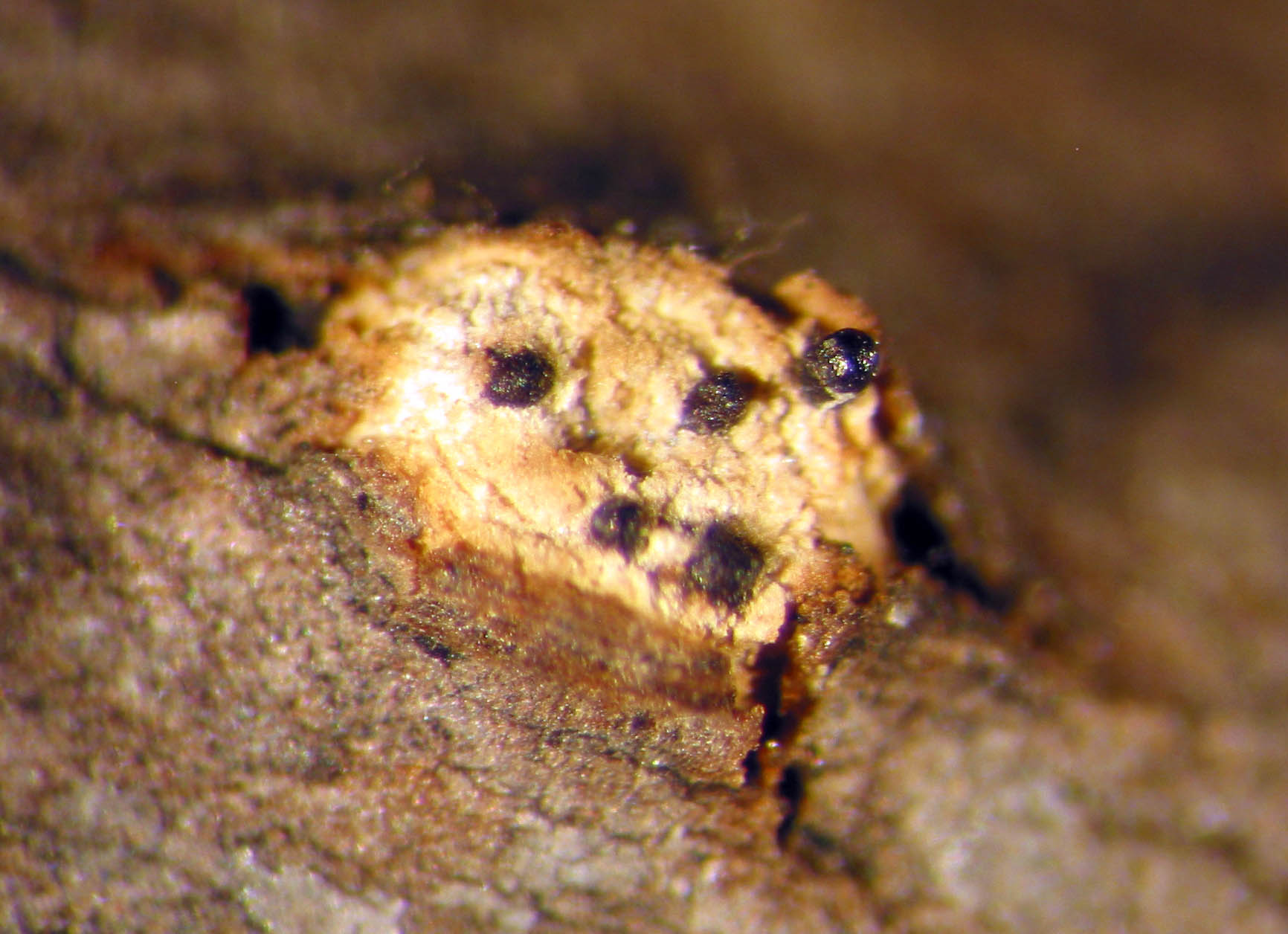 Leucodiaporthe acerina